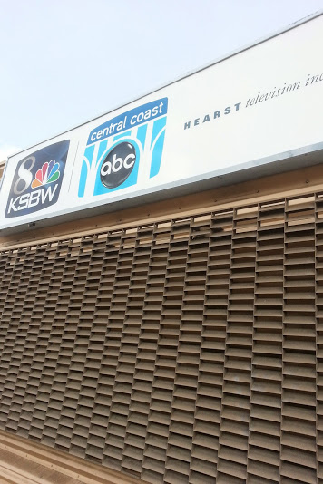 The main KSBW Studios at 238 John Street Salinas, CA